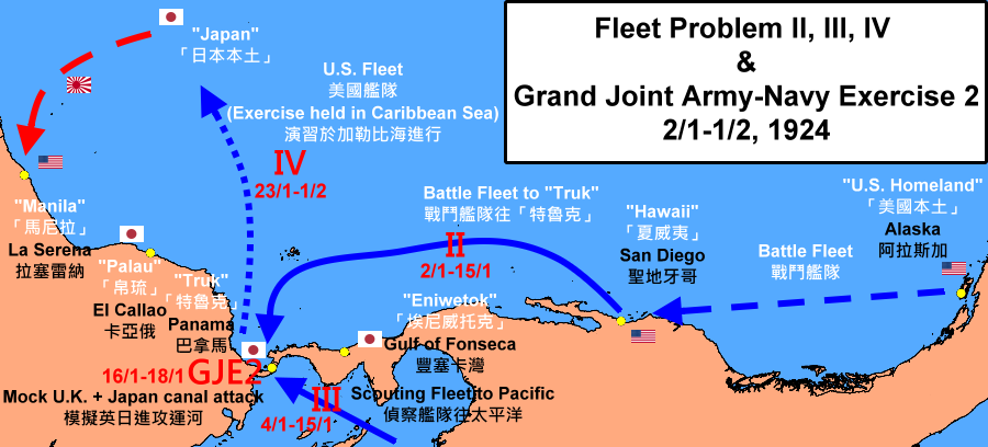 Fleet Problem II, III, IV and Grand Joint Army-Navy Exercise No.2 chart map, 2/1/1924 - 1/2/1924. Note also the geographic transposition implemented by the navy, which aims to mimic the actual Pacific geography.